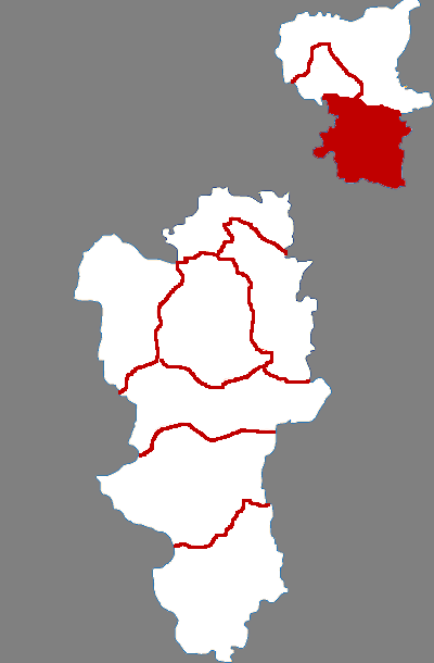 Location of Xianghe county in Langfang City, China